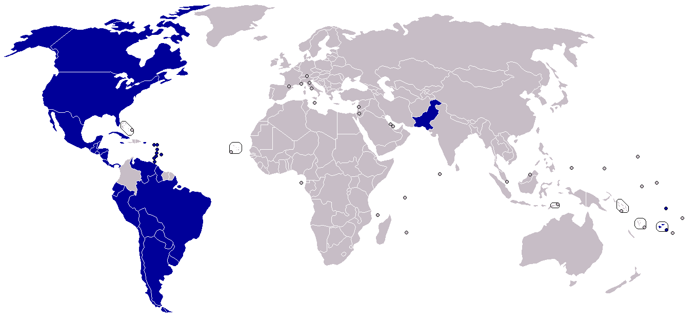 Citizenship based on jus soli around the world